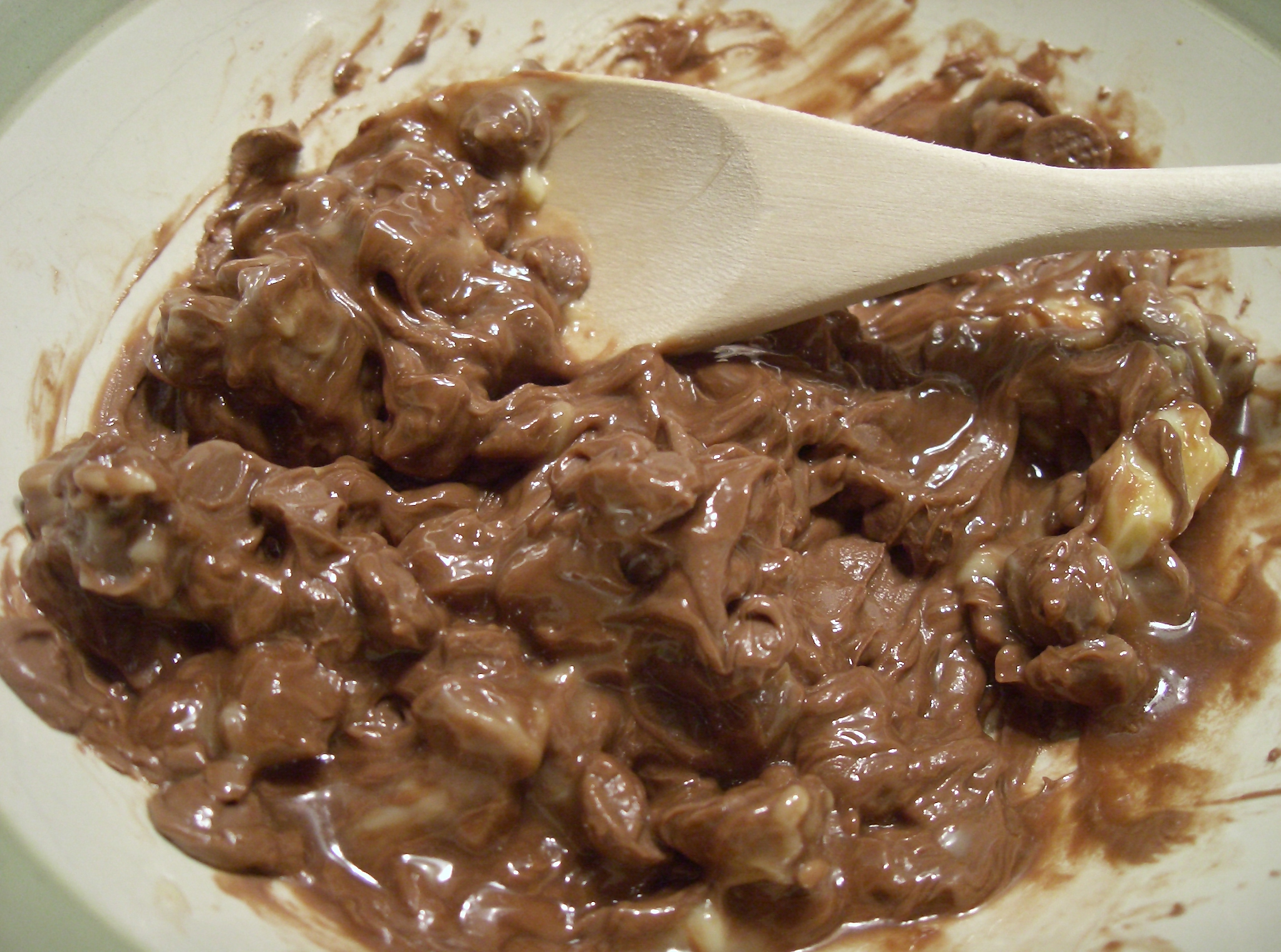 See Cookbook:Melting chocolate.